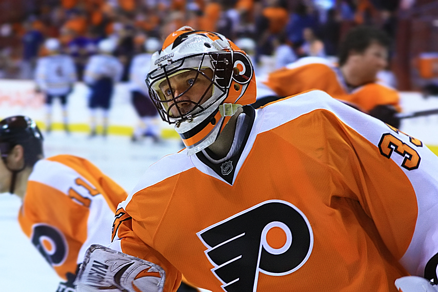 Goalie Brian Boucher, #33, of the Philadelphia Flyers.